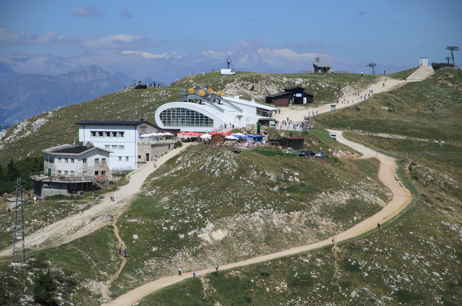 The arrival of the cable that connects Malcesine to Monte Baldo